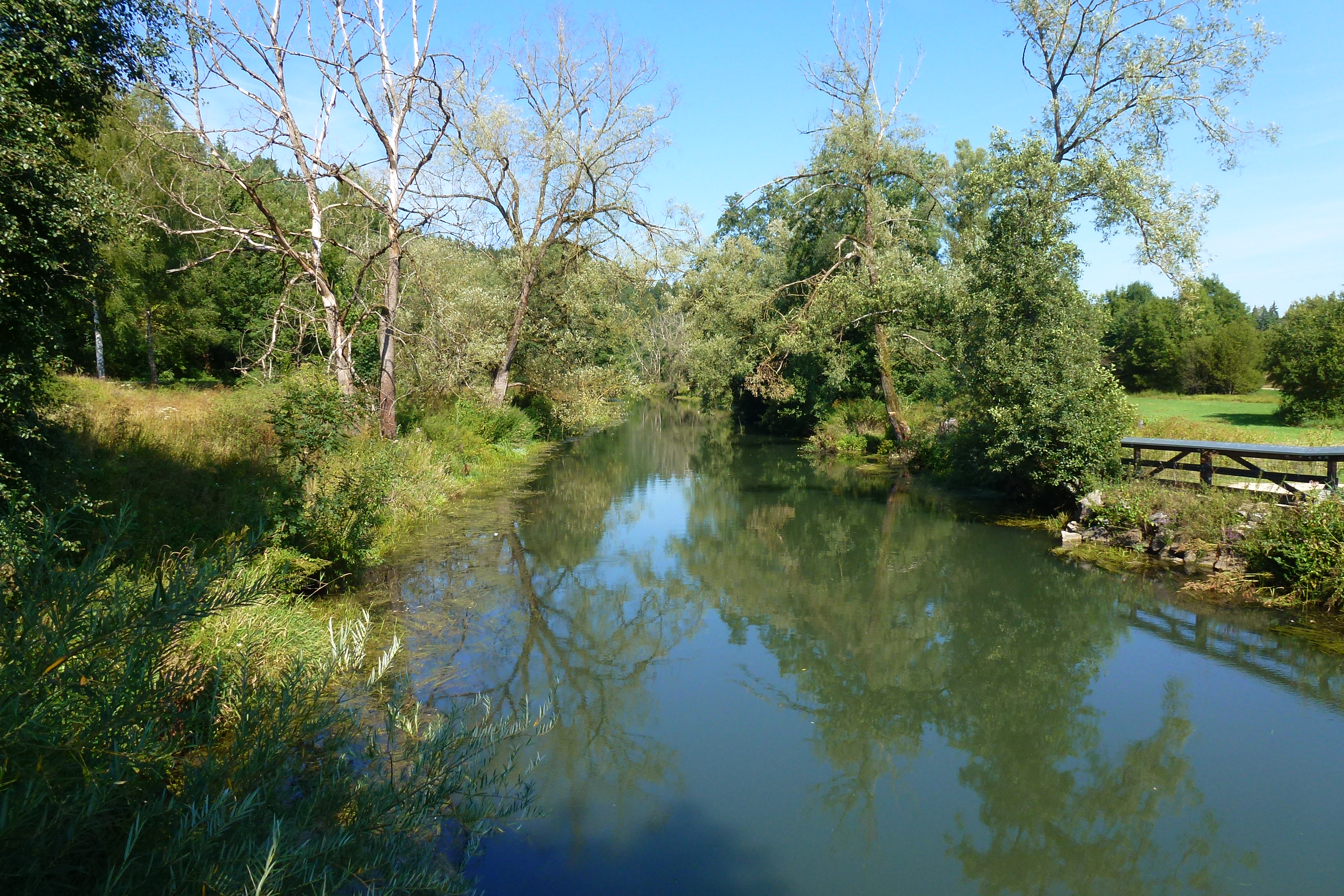 River Vils near Ensdorf, Bavaria, Germany